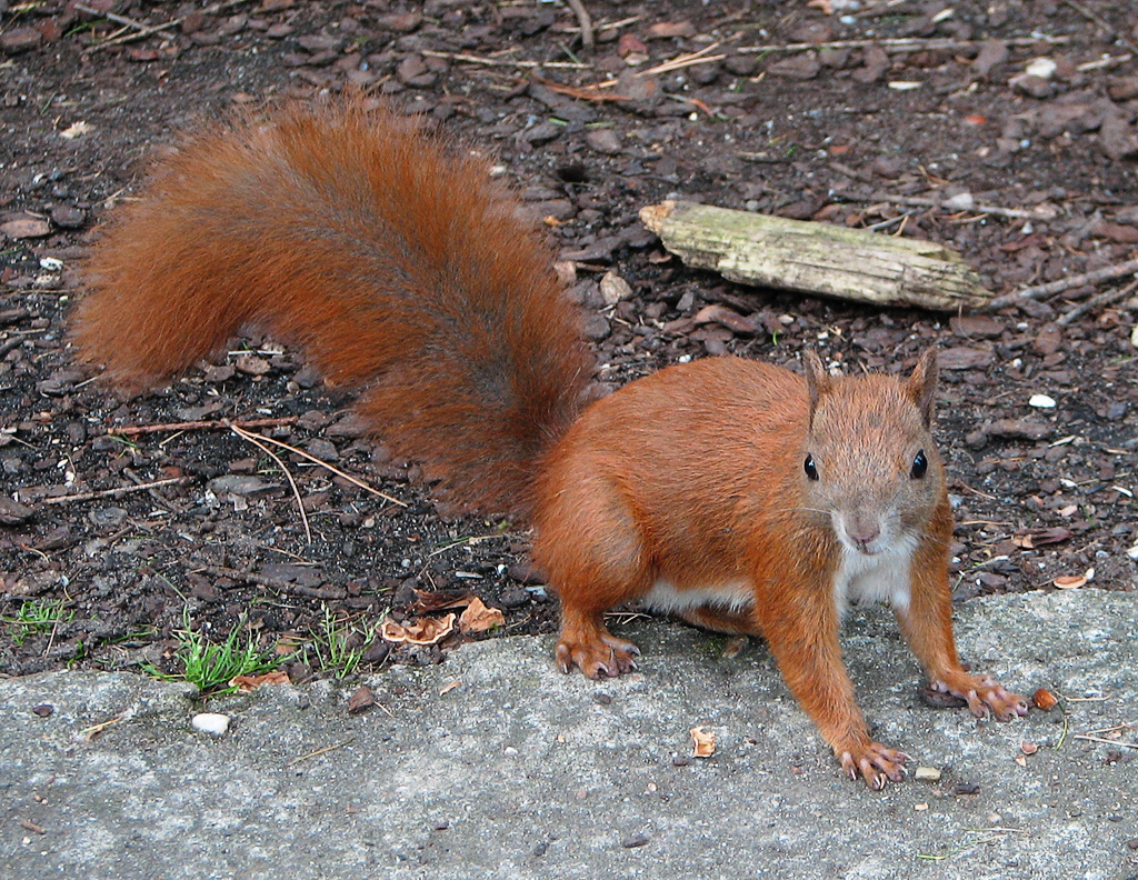 Red squirrel (Sciurus vulgaris) in the Dresden Botanical Garden.